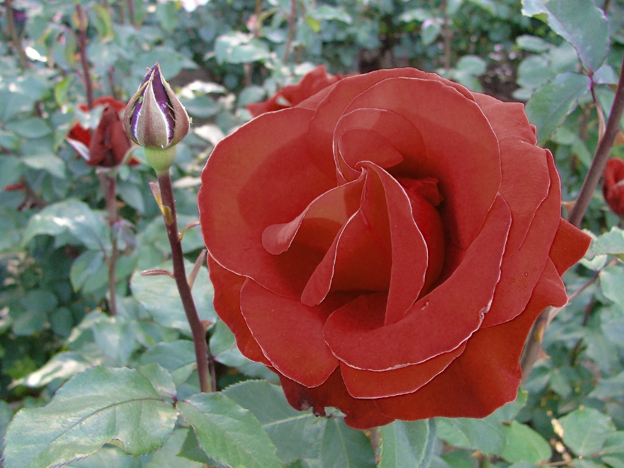 An open red rose and a rosebud at the International Rose Test Garden. The cultivar is unknown.